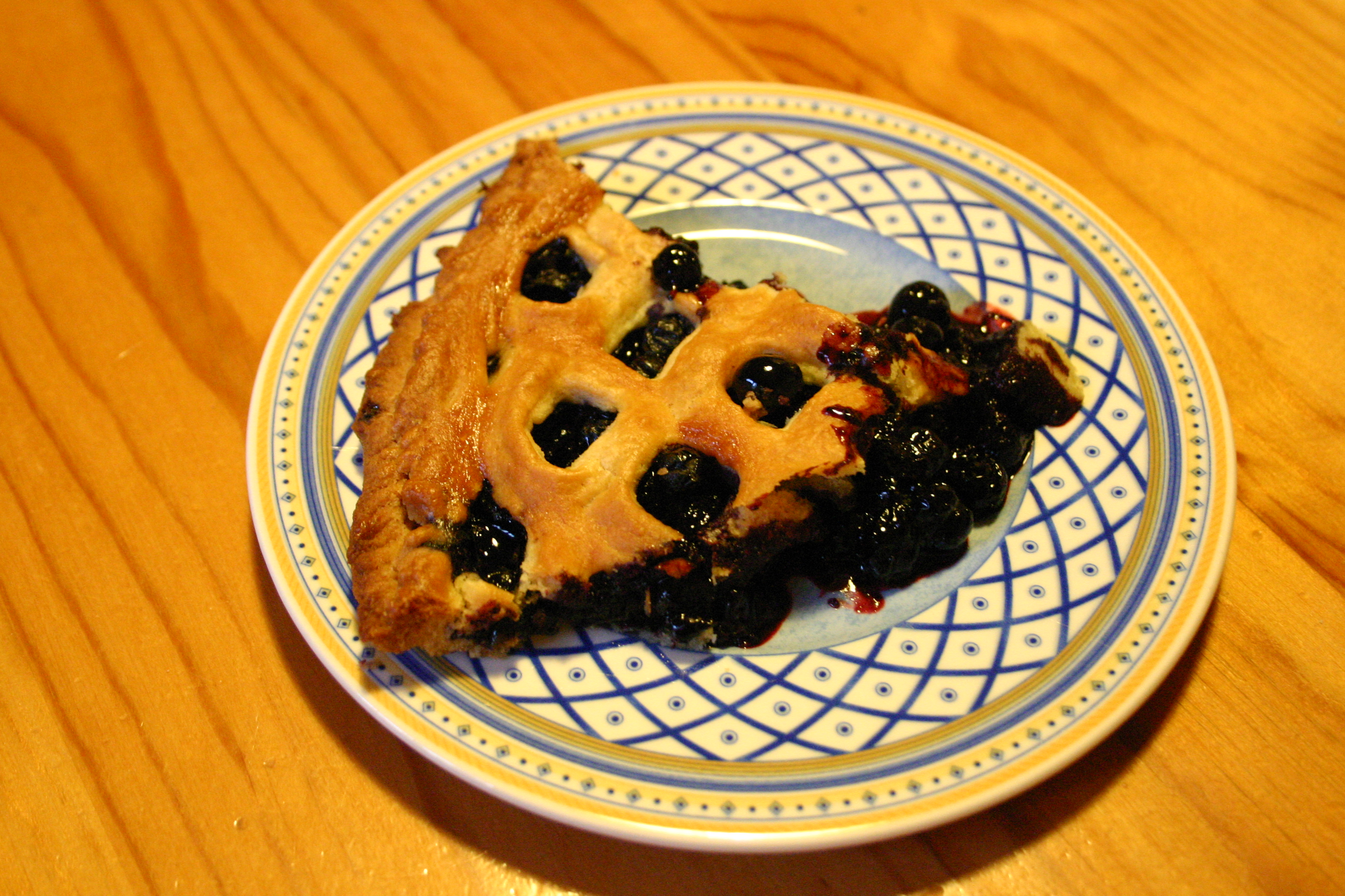 A pie made from fraughans (fraocháin) (pronounced frockens) gathered in the Dublin mountains. Gathered on the Saturday following Fraughan Sunday (last Sunday in July, the traditional Sunday to gather fraughans). This tradition is associated with the Lúnasa festival.